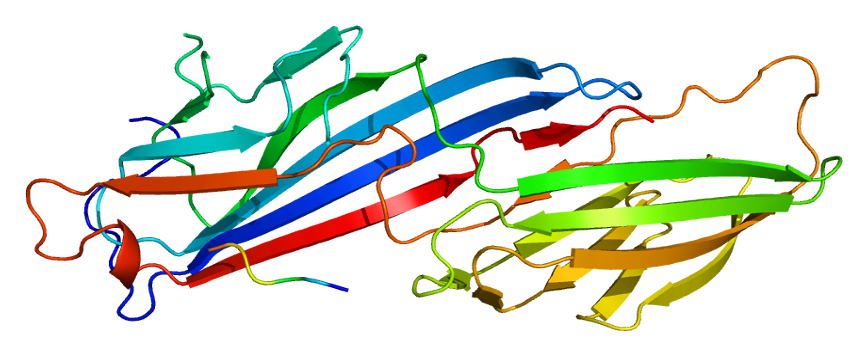 Structure of the AP2M1 protein. Based on PyMOL rendering of PDB 1bw8.